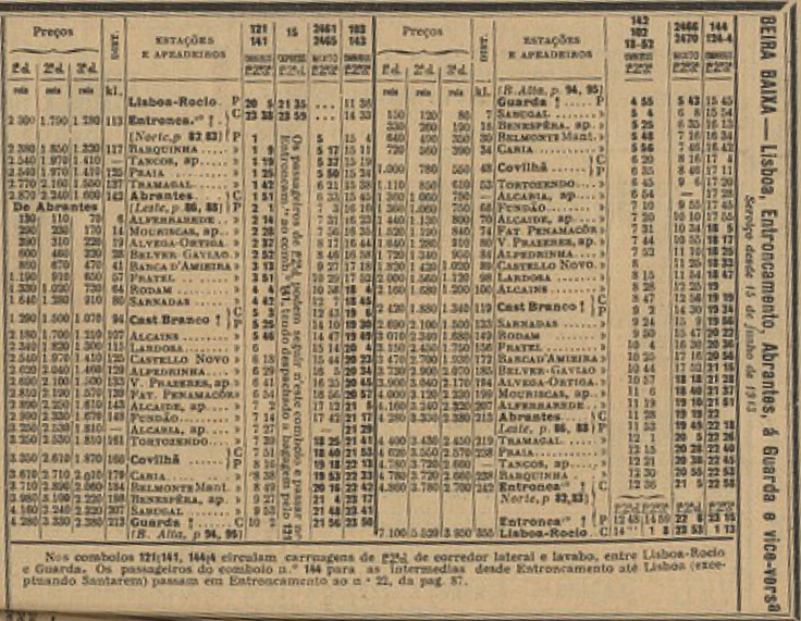 Timetable of the Linha de Beira Baixa (Beira Baixa Railway), in Portugal, on the 15th June 1913. This image was published on the Guia Official dos Caminhos de Ferro de Portugal No. 168, of October 1913, and scanned by the Biblioteca Nacional de Portugal.